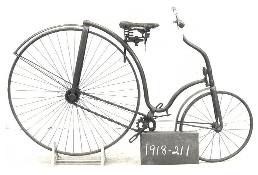 A McCammon safety bicycle now in collections of the Science Museum (London) as copied from their ObjectWiki. The front wheel is 22 in. diam. and the back one 38 in. diam., but it is geared up to 51. The wheel base is 40.5 in., and the machine weighs 49 lb.